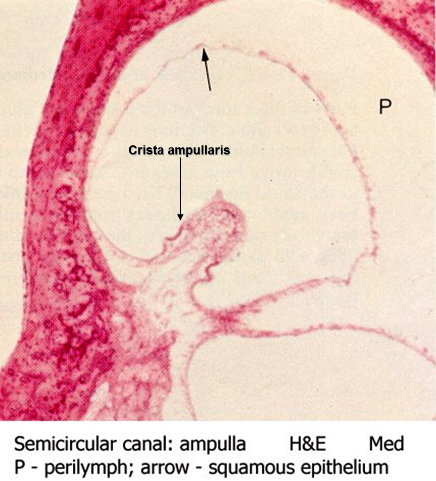 Semicircular canal: ampulla with a basic hematoxylin & eosin stain P - perilymph arrow - squamous epithelium